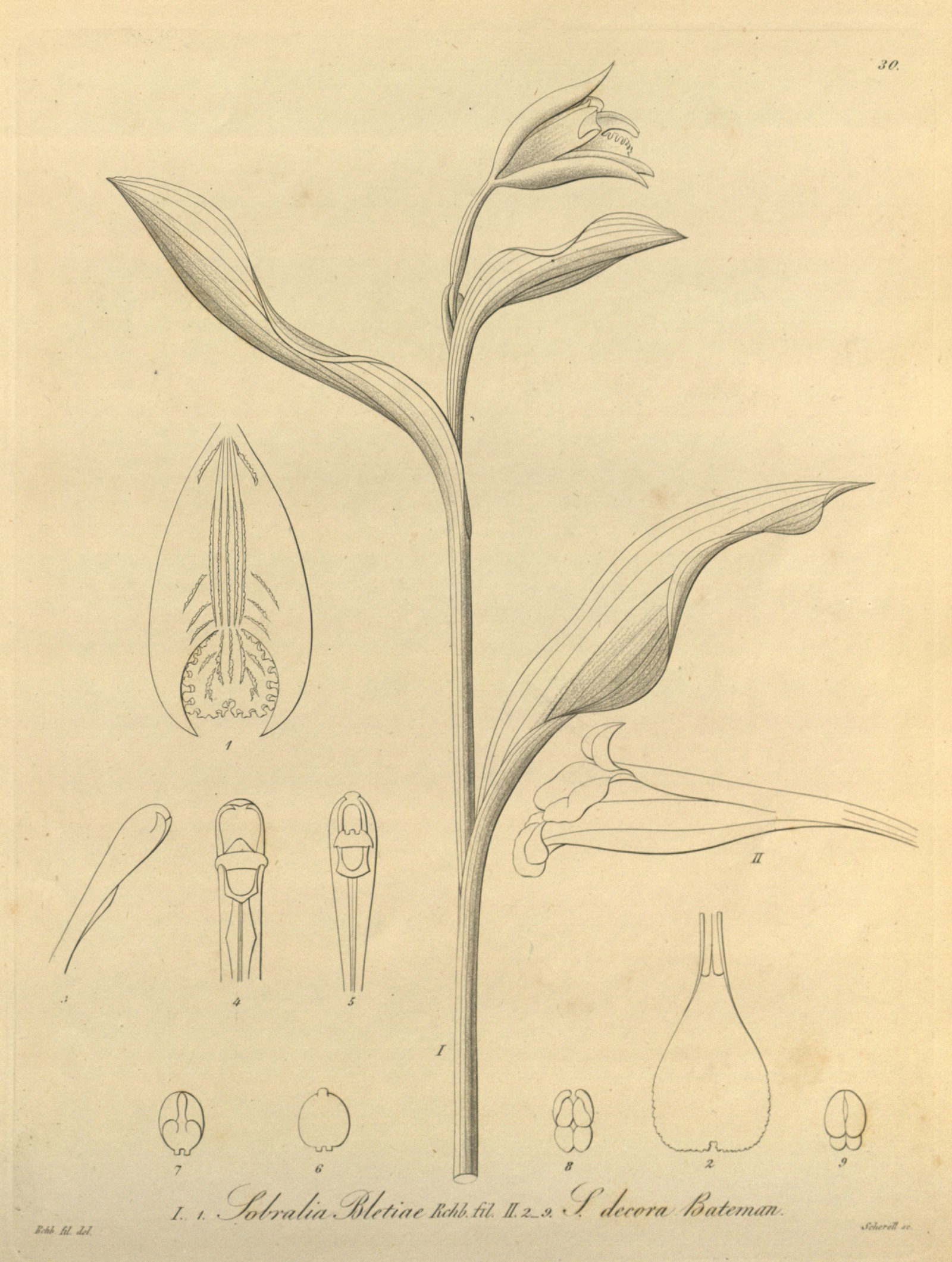 Illustration of: I. Sobralia bletiae II. Sobralia decora